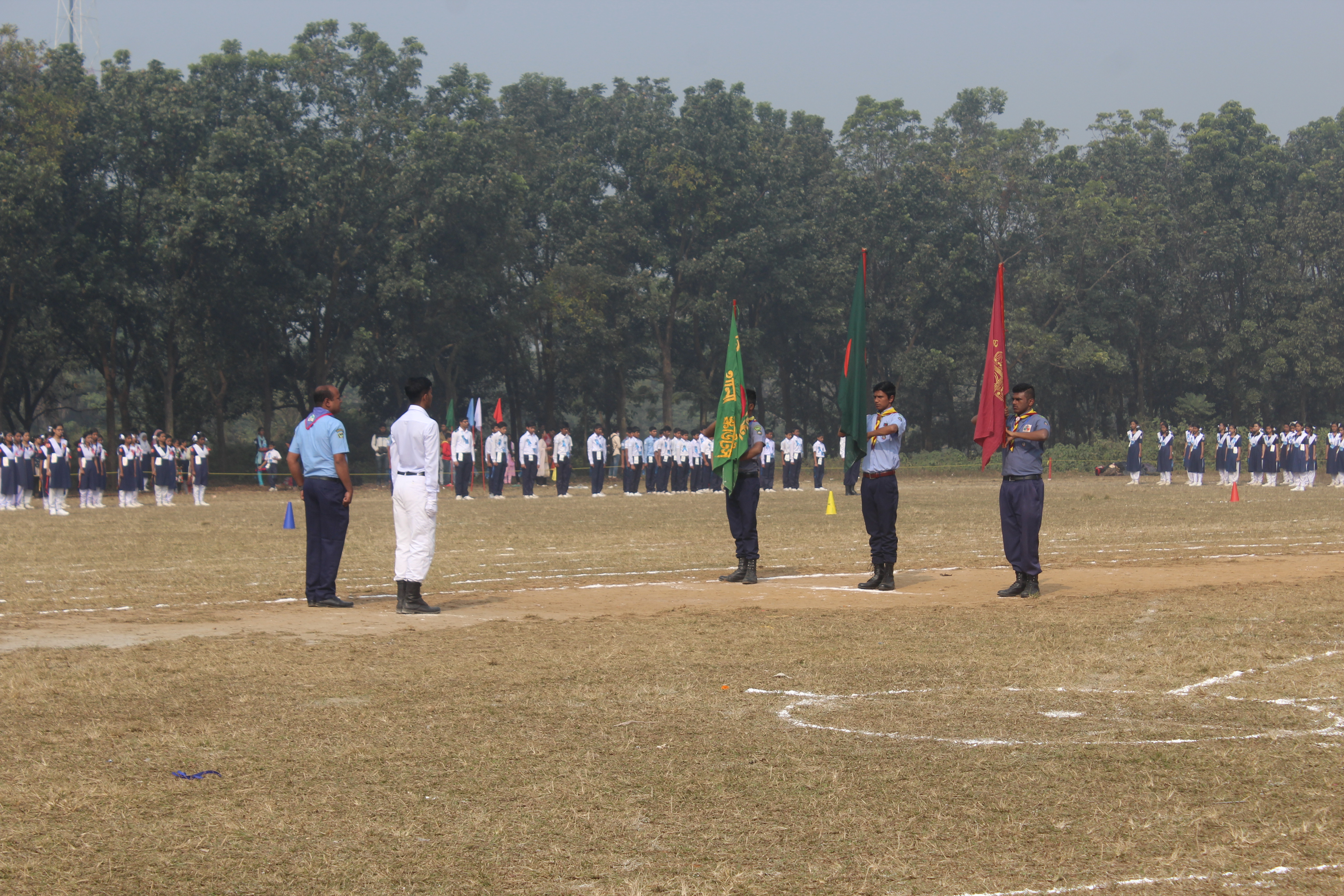 Final occasion of parade of Jahangirnagar University School & College was held on 17 january 2018. On the occasion current Vice-chancellor of Jahangirnagar University Farzana Islam was called as chief guest and special guest was Abul Hossain. Some photo of the occasion………………………………………..